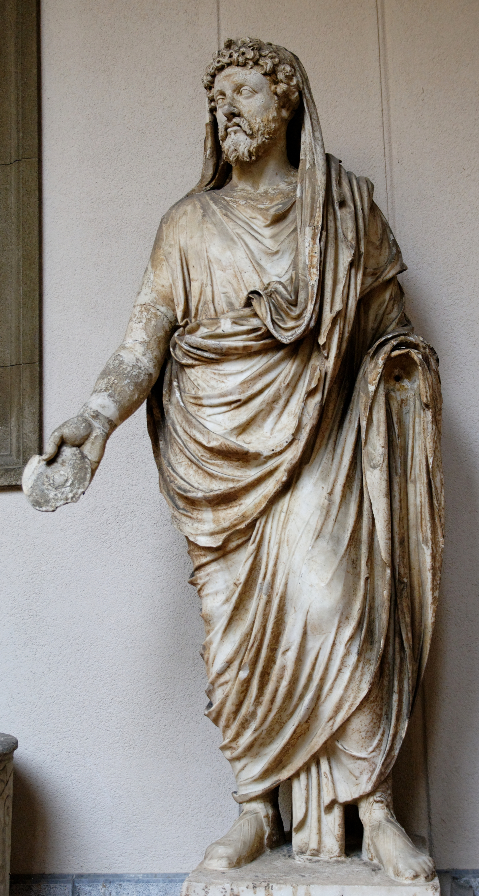 Male Roman with toga, probably a priest. Marble, Roman artwork, late 1st century AD; head, right arm and hand are modern restorations. From Tindari, province of Messina, Sicily.